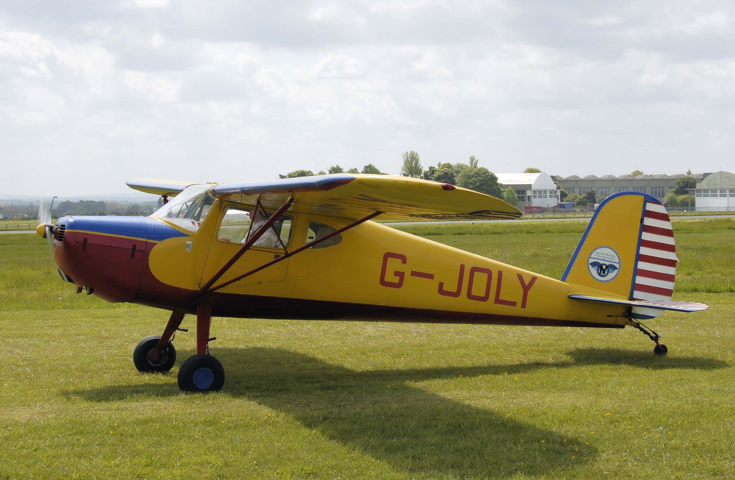 Cessna 120 (G-JOLY), built 1947, at a vintage aircraft rally (the Great Vintage Flying Weekend), Kemble Airport, Gloucestershire, England.